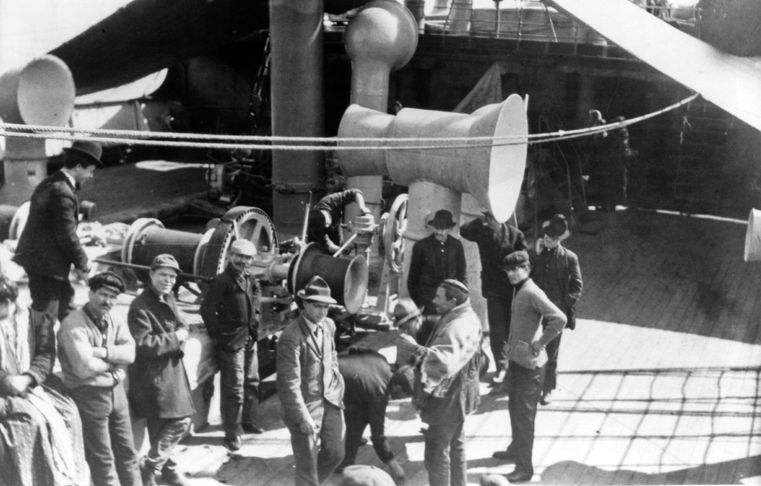 Description from page at Library of Congress: TITLE: Emigrants on the steerage deck of FRIEDRICH DER GROSSE CALL NUMBER: LOT 7172 [item] [P&P] REPRODUCTION NUMBER: LC-USZ62-45663 (b&w film copy neg.) RIGHTS INFORMATION: No known restrictions on reproduction. MEDIUM: 1 photographic print. CREATED/PUBLISHED: [between ca.1907 and ca.1921] NOTES: Title and other information transcribed from caption card and item. George Grantham Bain Collection (Library of Congress). 121-76. SUBJECTS: Emigration & immigration--1900-1930. FORMAT: Photographic prints 1900-1930. REPOSITORY: Library of Congress Prints and Photographs Division Washington, D.C. 20540 USA DIGITAL ID: (b&w film copy neg.) cph 3a45850 CONTROL #: 2001704446